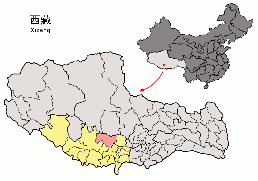 Location of Xaitongmoin County (pink) and Xigazê Prefecture (yellow) within Tibet (Xizang) autonomous region of China